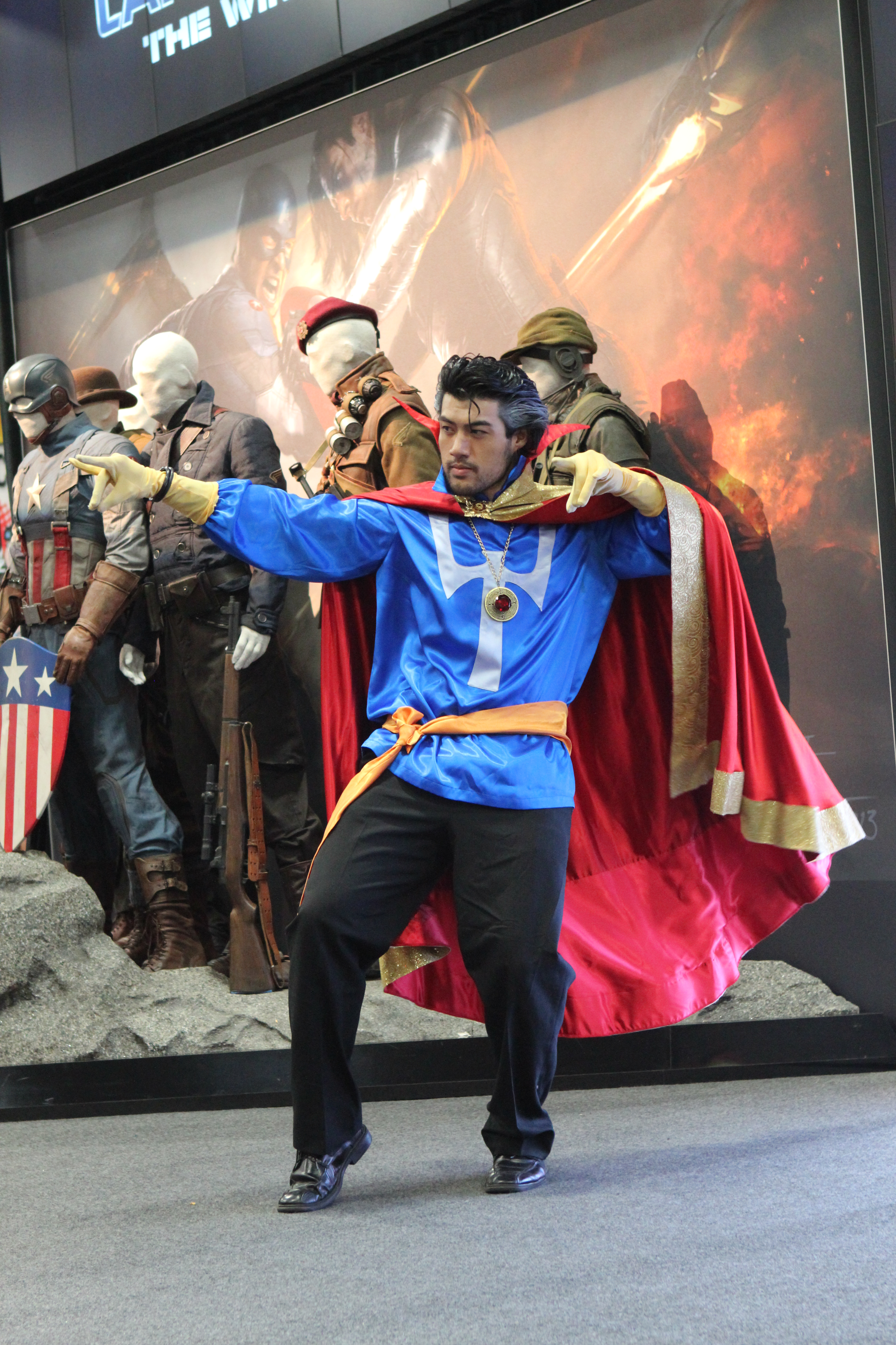 Doctor Strange